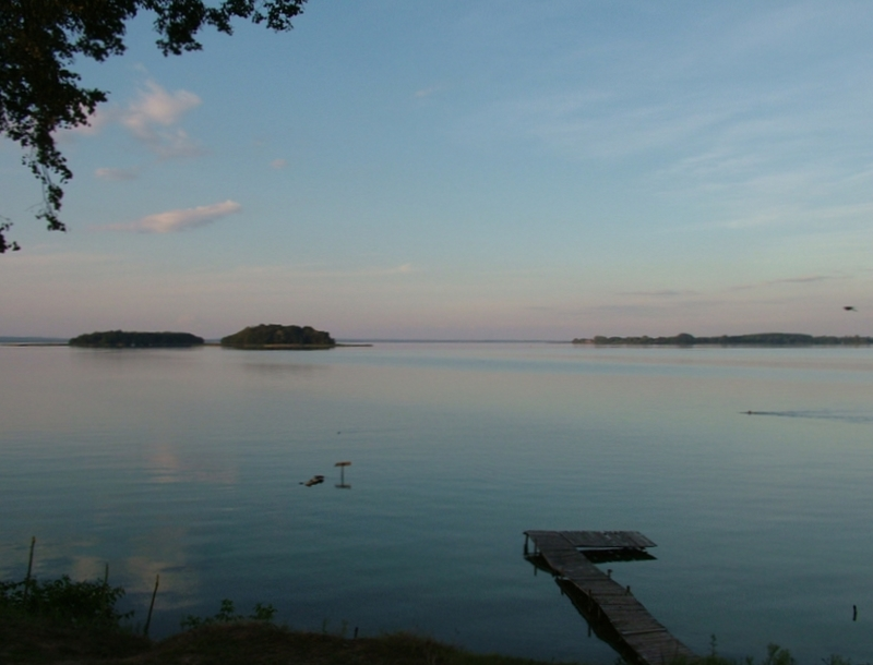 Gmina Ruciane-Nida. Niedźwiedzi Róg Village.Śniardwy, Mazurien Lake District, Warmian-Masurian Voivodeship, Poland